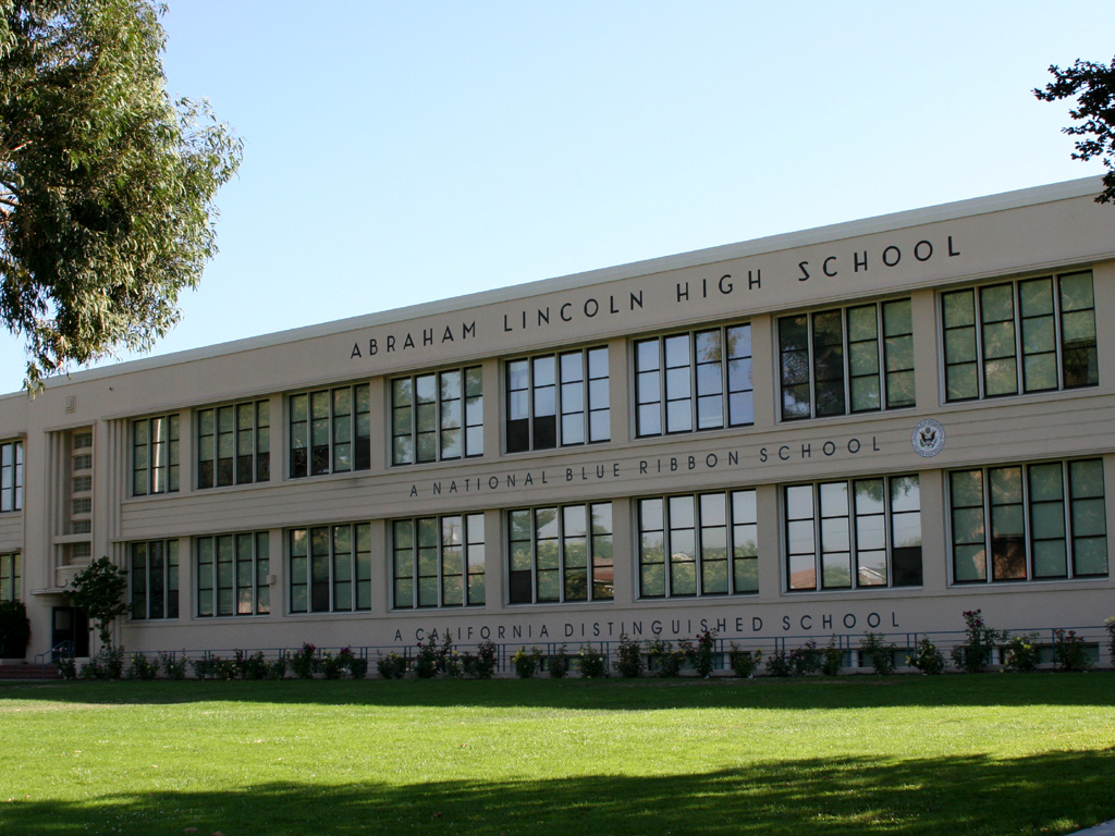 Abraham Lincoln High School (San Jose, California) building. Photograph taken by Bahn Mi of the Schoolwatch Programme and released freely under the Creative Commons Attribution ShareAlike 2.0 license.